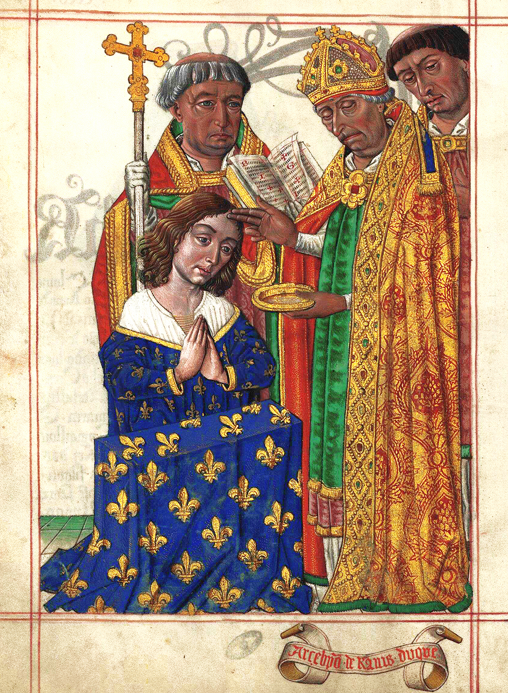 Archbishop-Duke of Reims